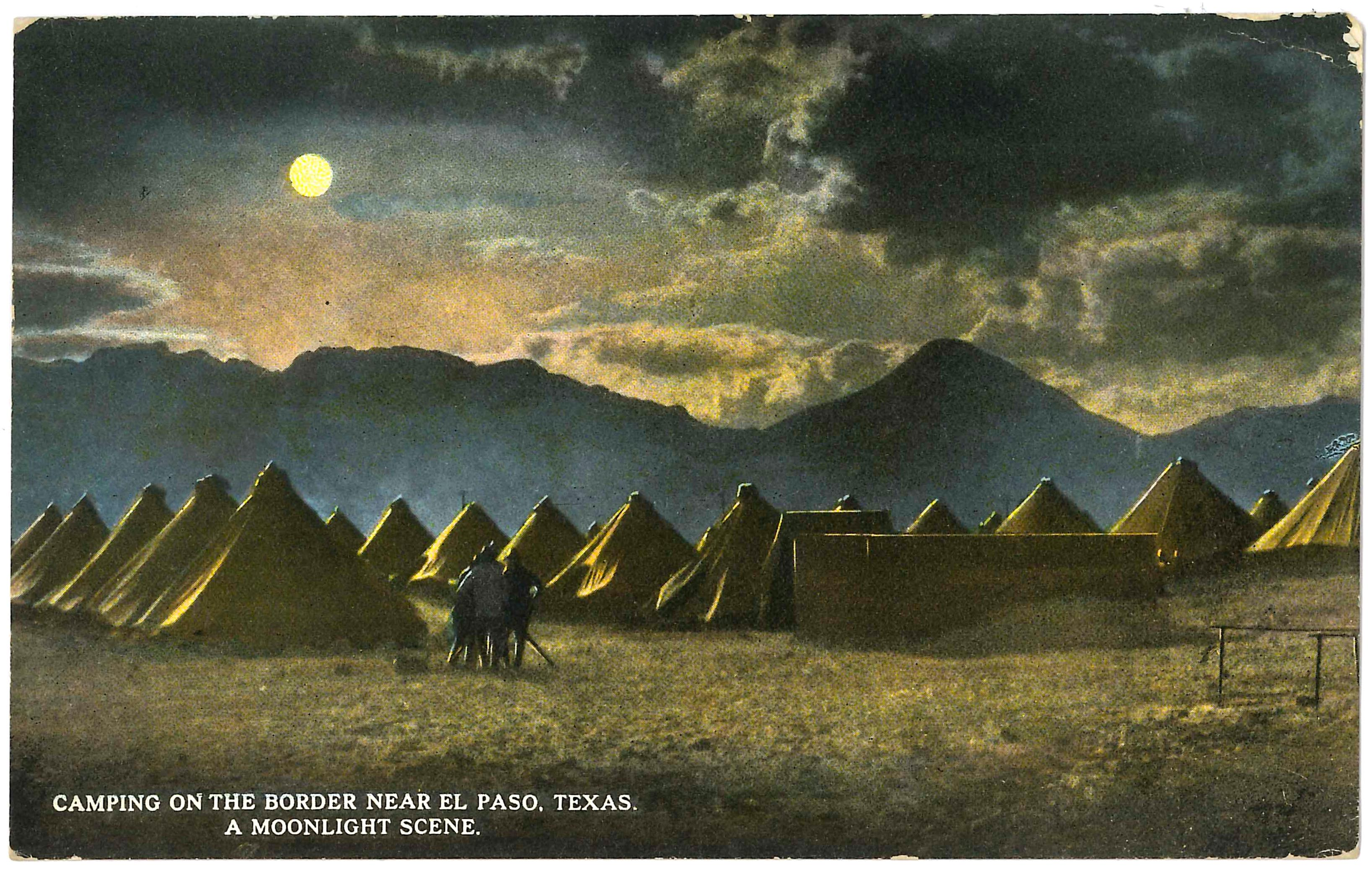 Camping on the Border, near El Paso, Texas (military), Moonlight. Pershing's Punitive Expedition of 1916, according to UNM.